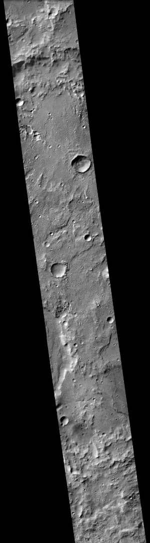 Center section of Williams Crater, as seen by ctx